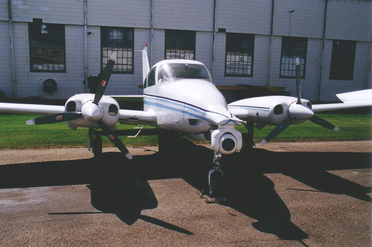 I took this photo of a fire fighting Cessna T310P belonging to Air Spray in Red Deer, Alberta in 2000.